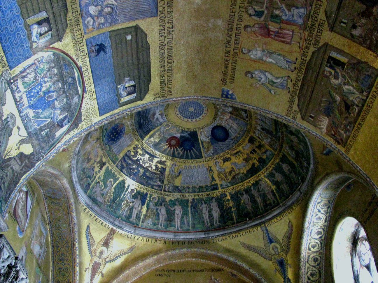 Interior of St. Mark's Basilica